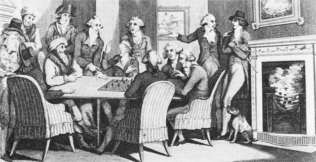 François-André Danican Philidor perfoming a blindfold game.